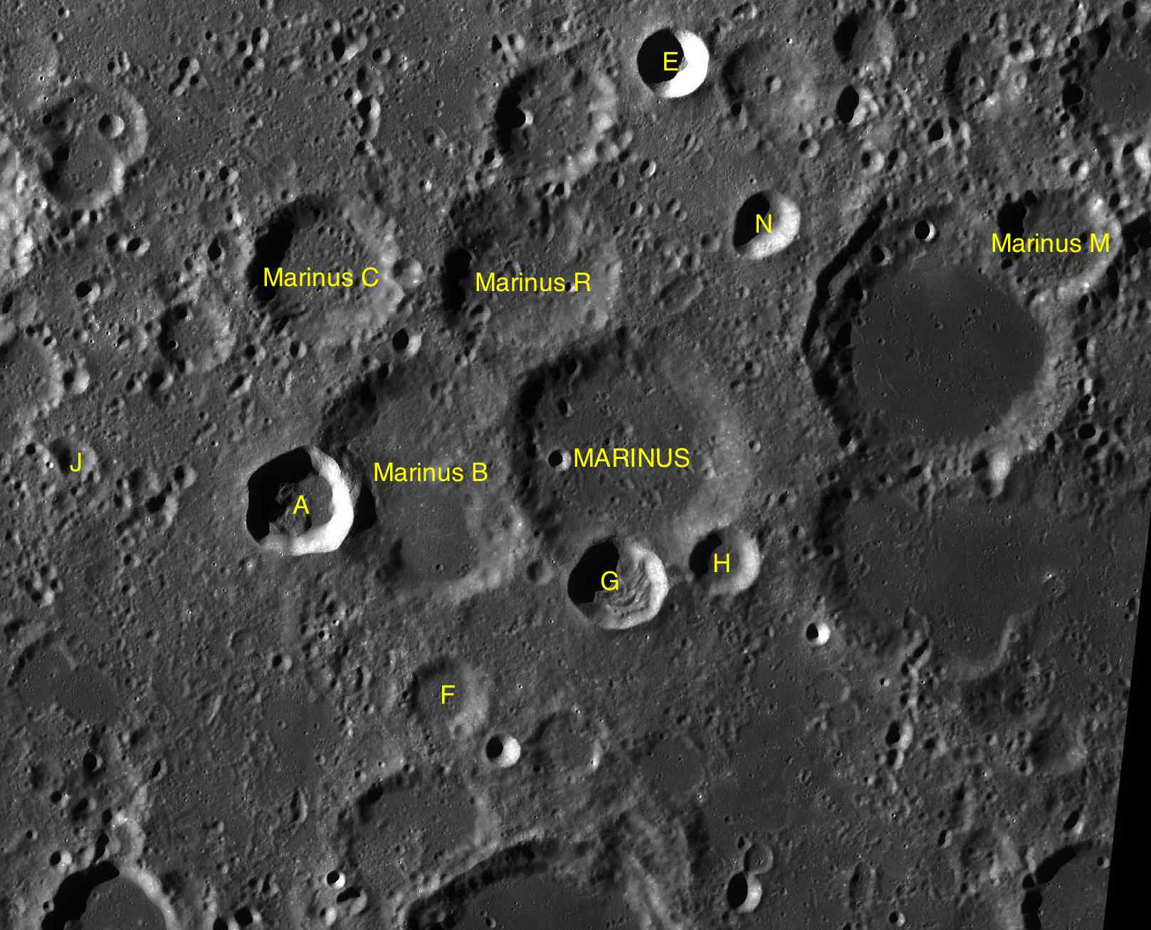 Part of the chart LAC-115 used for the presentation